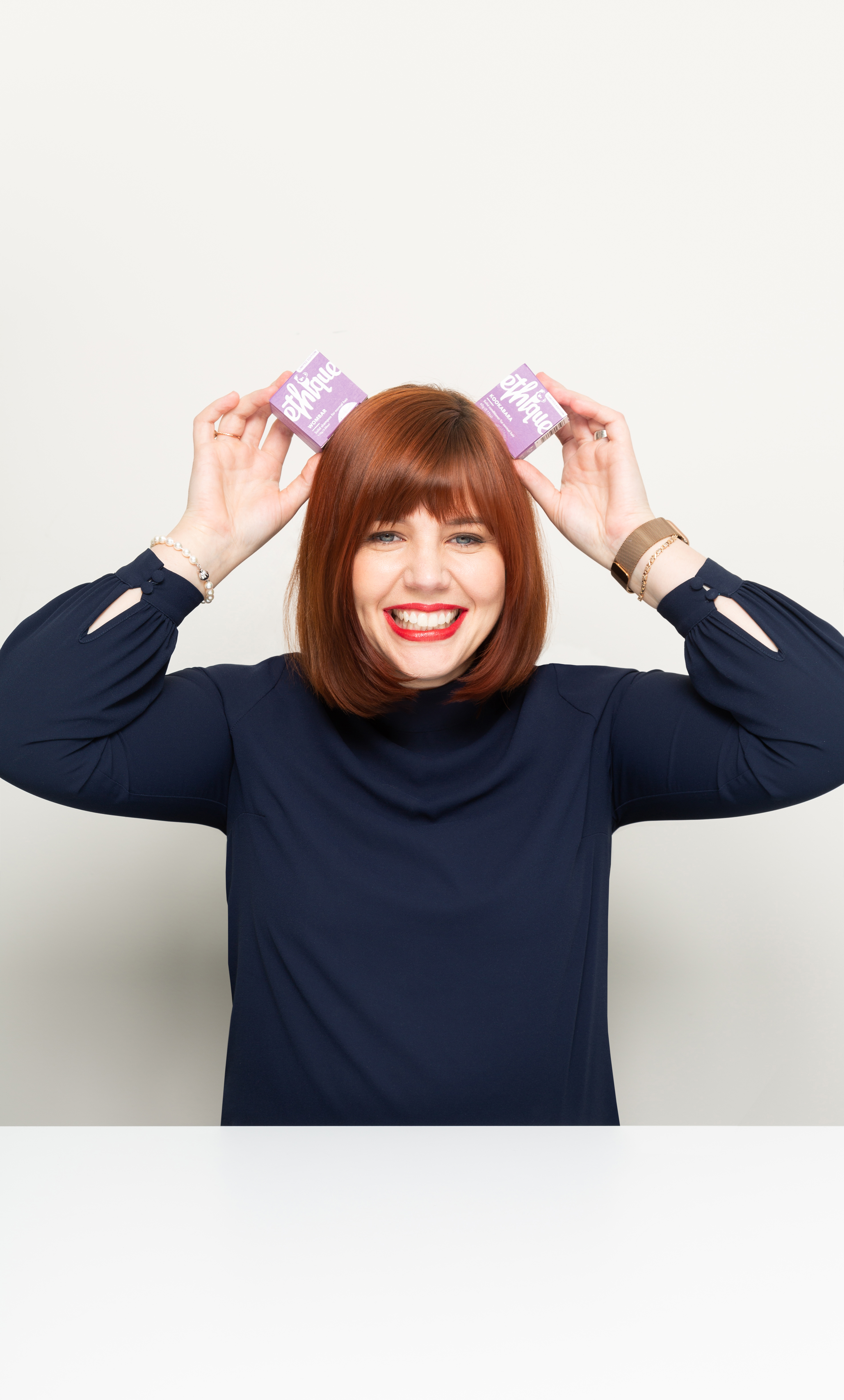 Brianne West, founder and CEO of Ethique, playfully displaying her newly created products.